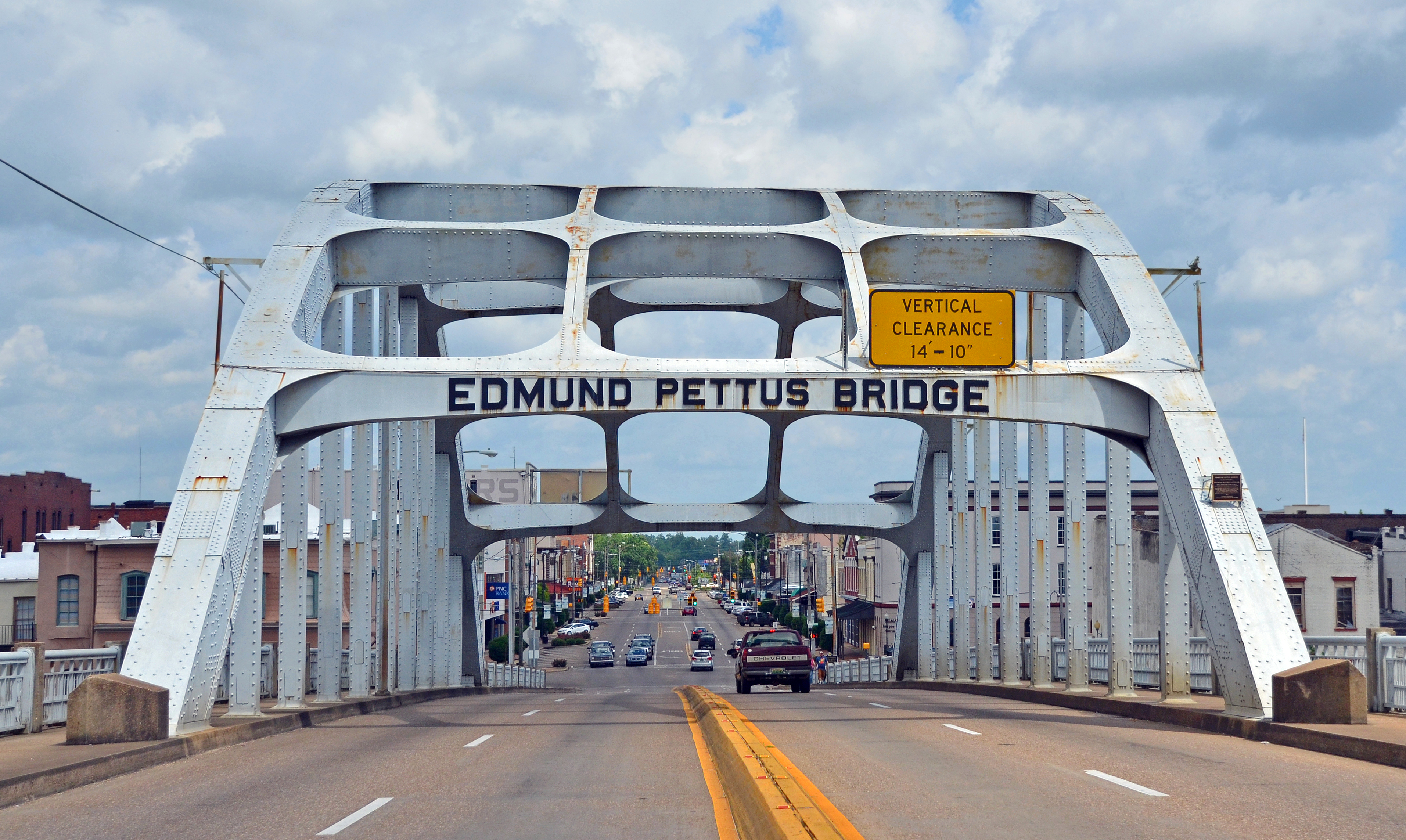 Edmund Pettus Bridge in Selma, Alabama. May 2015